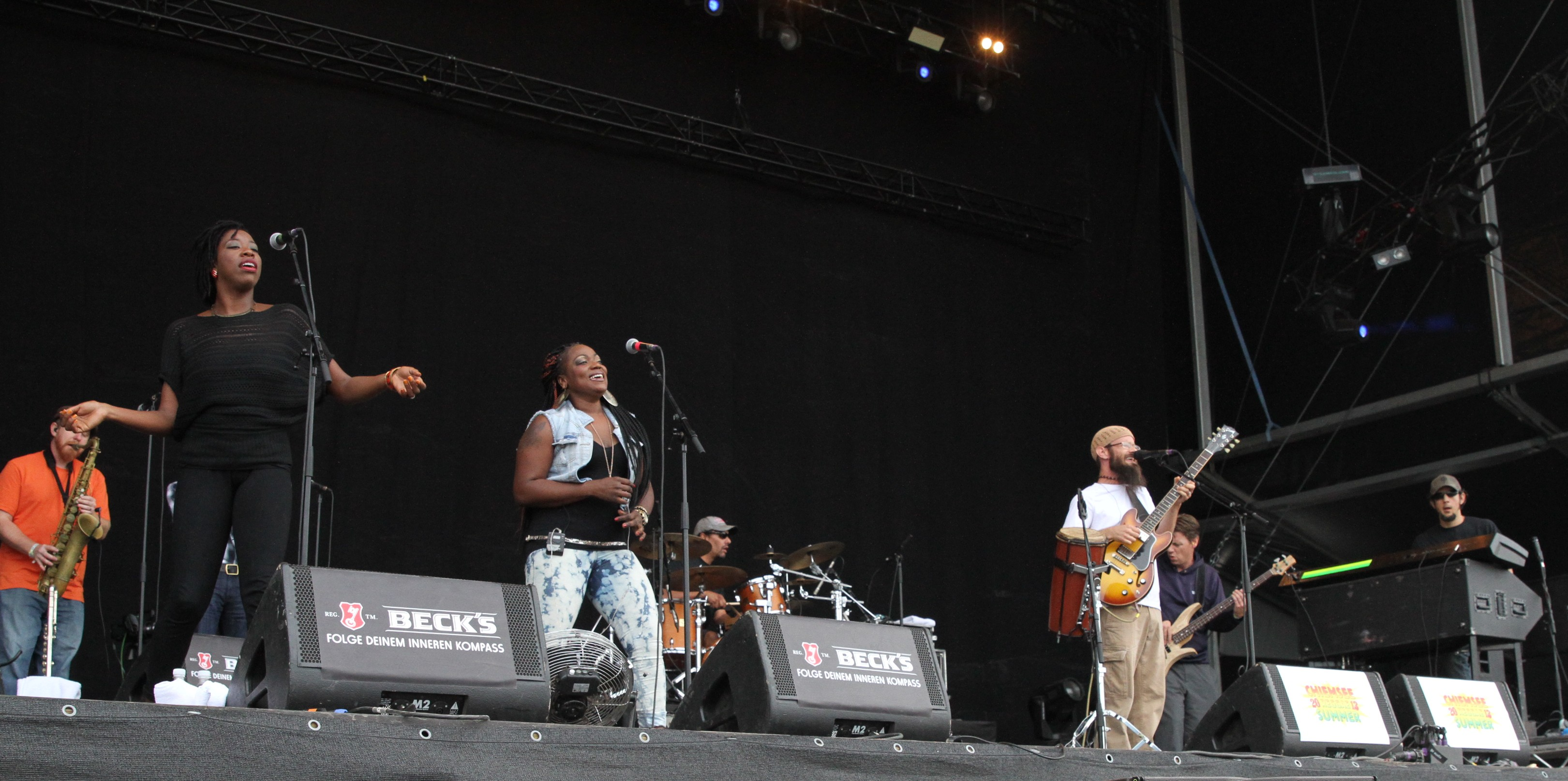 Groundation at Chiemsee Reggae Summer Festival 2013